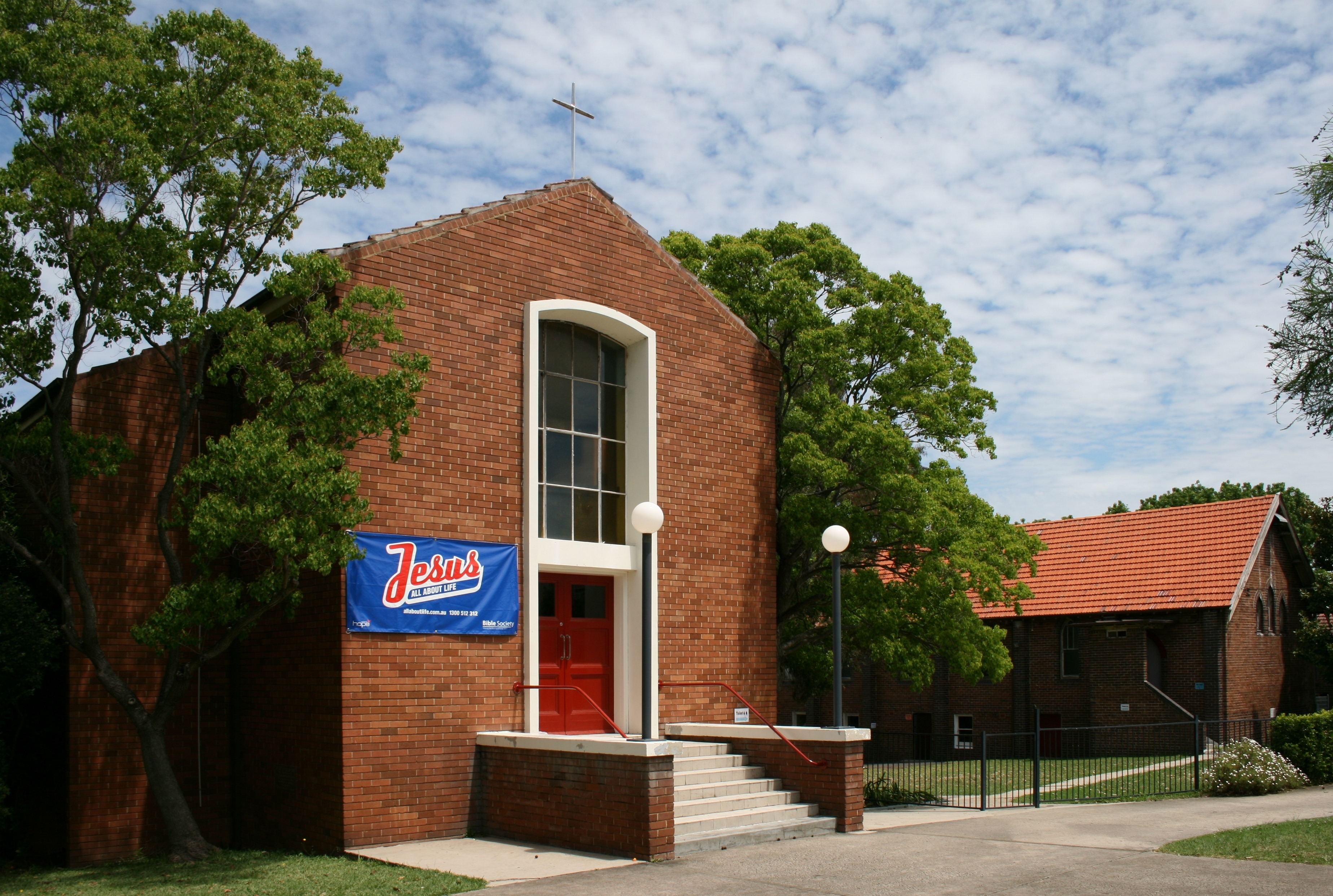 St. Matthew's Anglican Church, Ashbury, New South Wales (NSW), Australia.